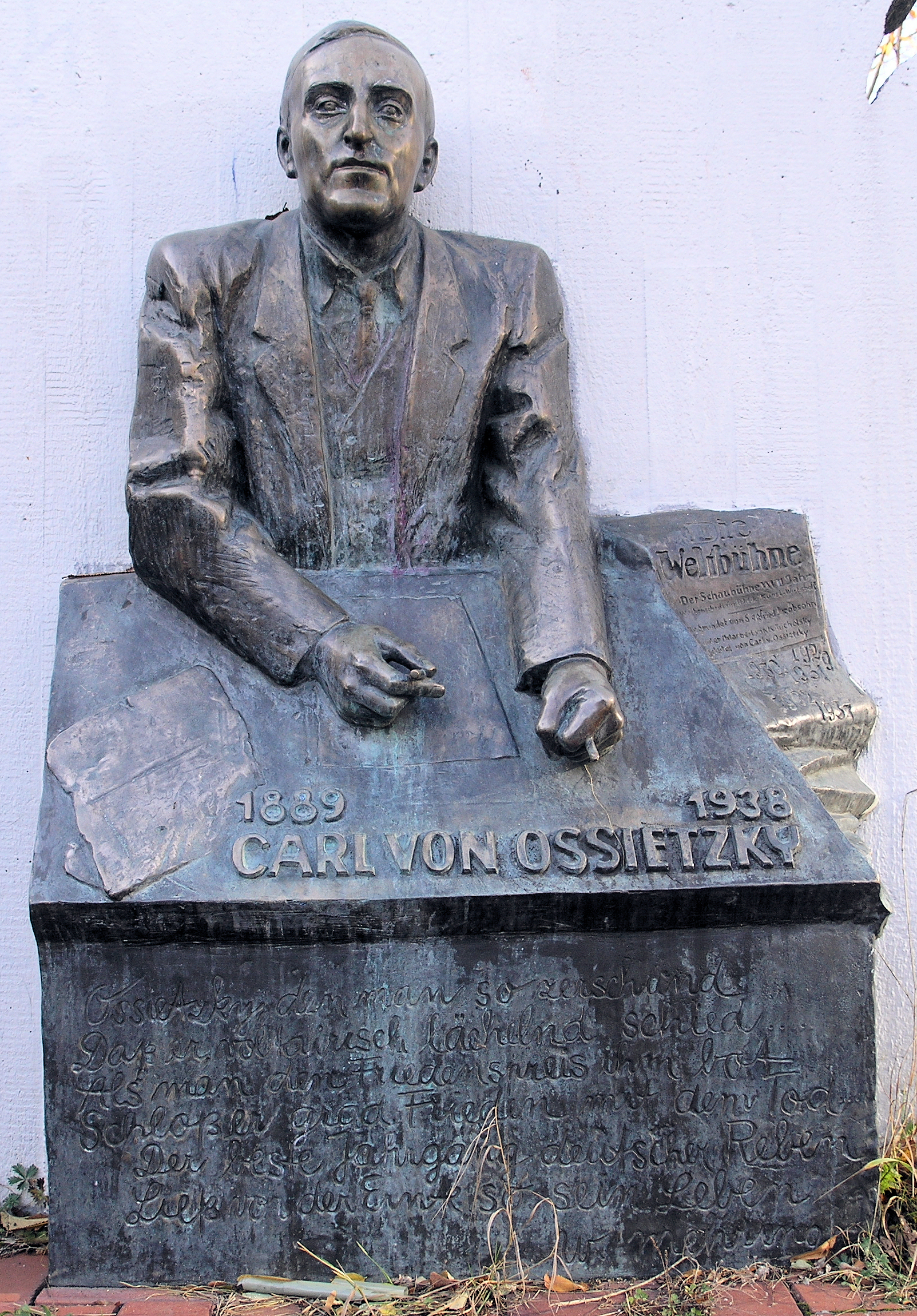 Memorial plaque, "Carl von Ossietzky" by Ludmila Seefried-Matějková, 1988, Blücherstr 45, Berlin-Kreuzberg, Germany Koordinate:52°29′31″N 13°24′20″E / 52.49194°N 13.40556°E